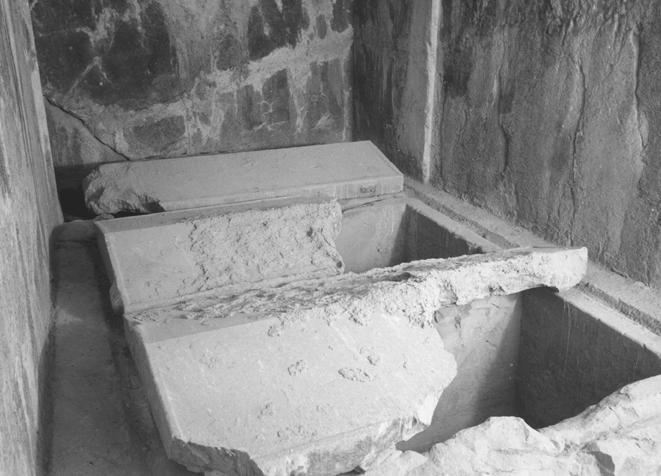 Graves in Tomb of Darius I in Naqsh-e Rostam, Iran.